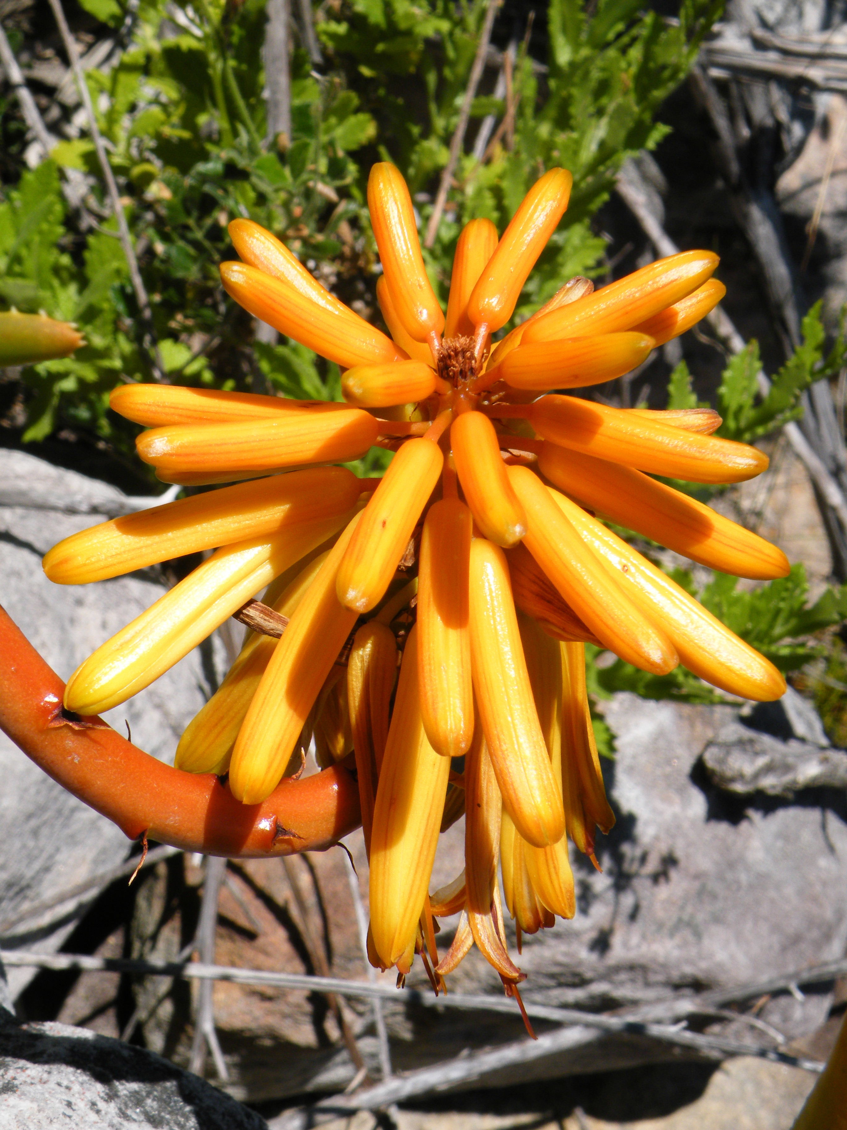 Aloe commixta. Table Mountain. Cape Town. South Africa. Detail of flower.